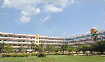 AUDISANKARA College of Engineering & Technology